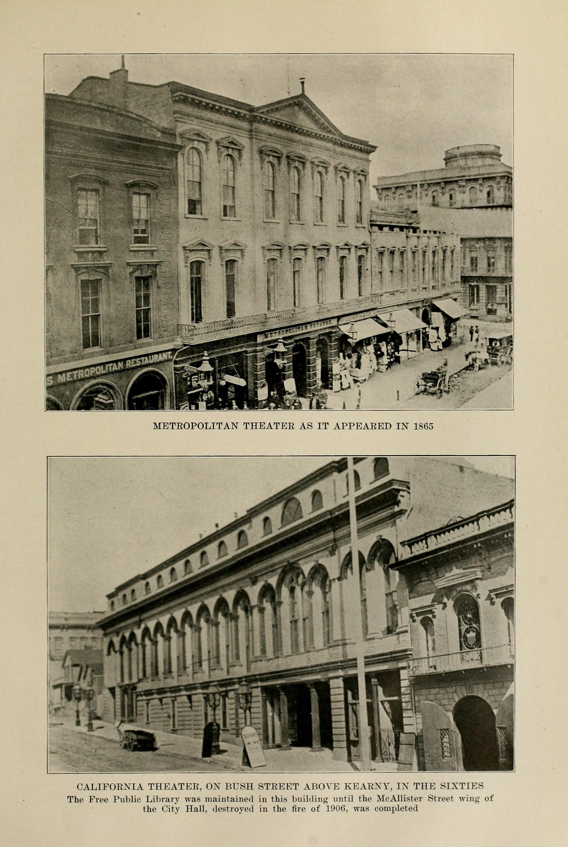 Metropolitan Theater, as it appeared in 1865 / California Theater, on Bush Street about Kearny, in the 1860s